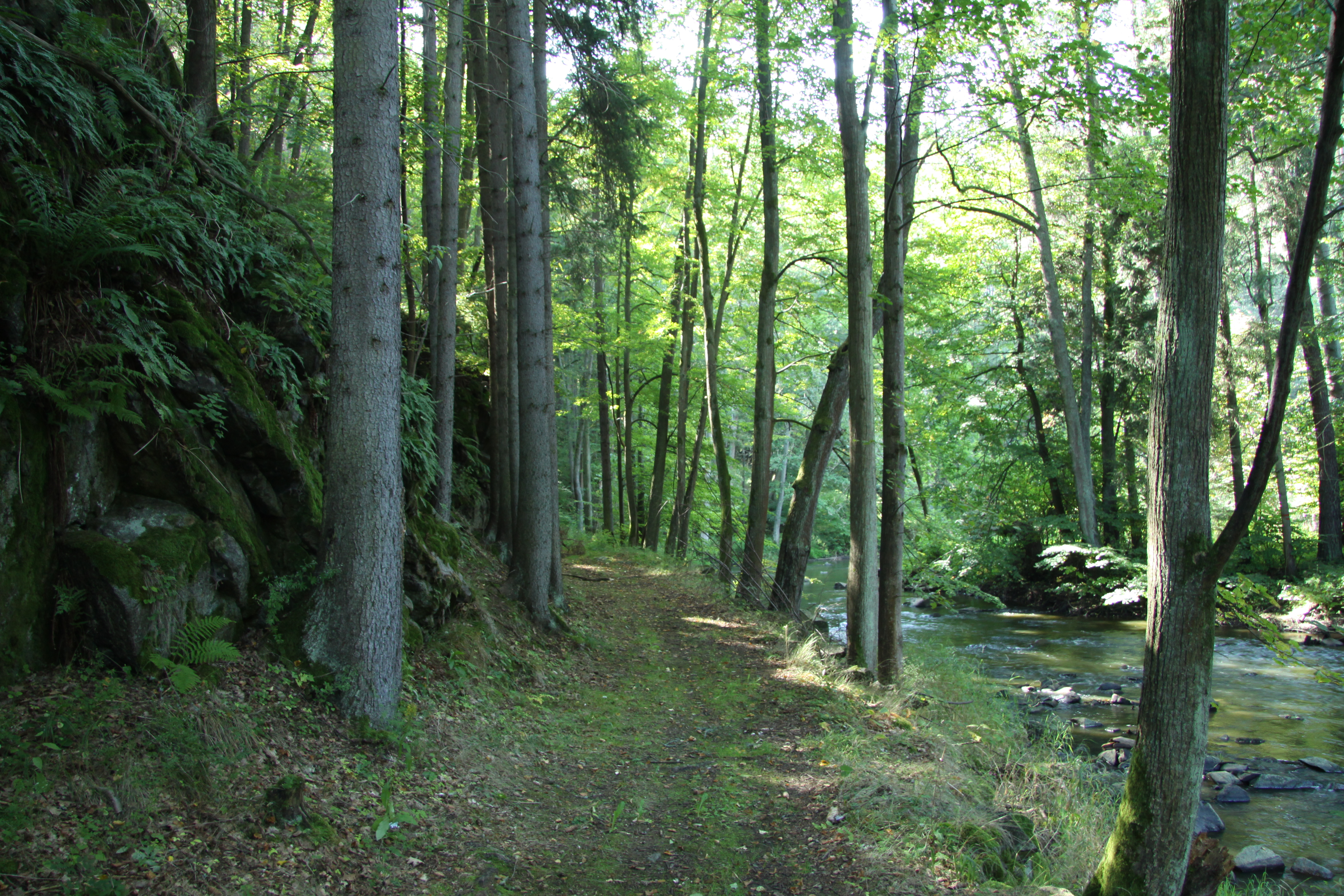 Natural monument V Obouch with Lomnice River in Písek District, Czech Republic.